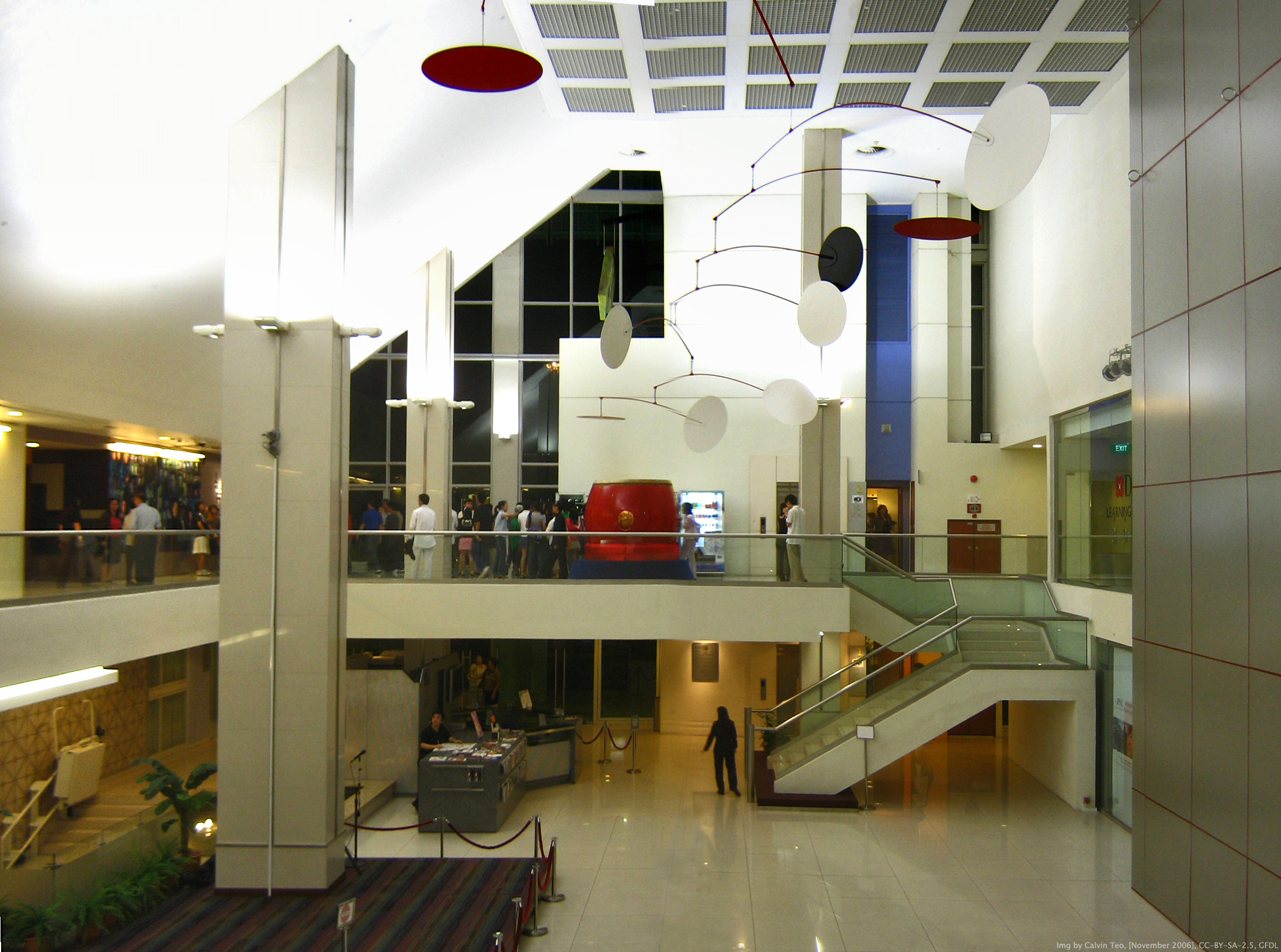 Interior and Atrium of the Singapore Conference Hall, Tanjong Pagar, Singapore.